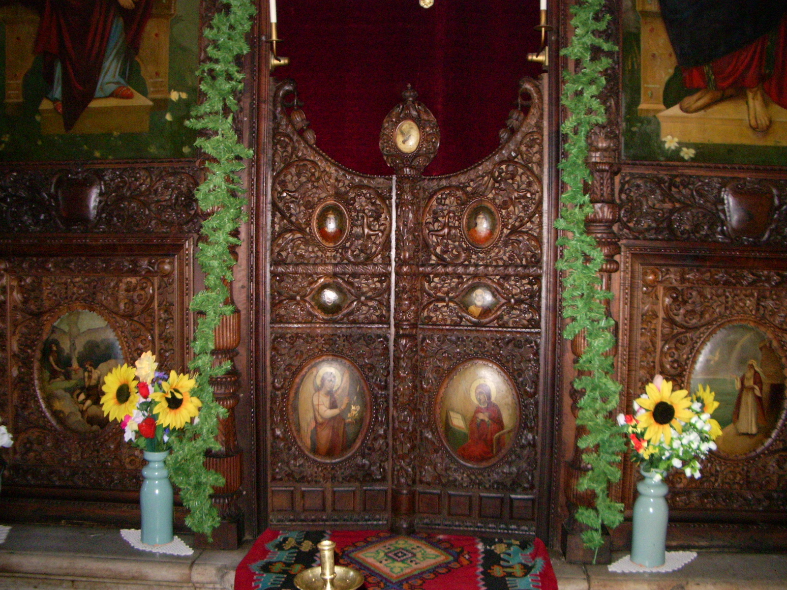 Church "Saint George", Yambol, Bulgaria. Entrance to the altar.